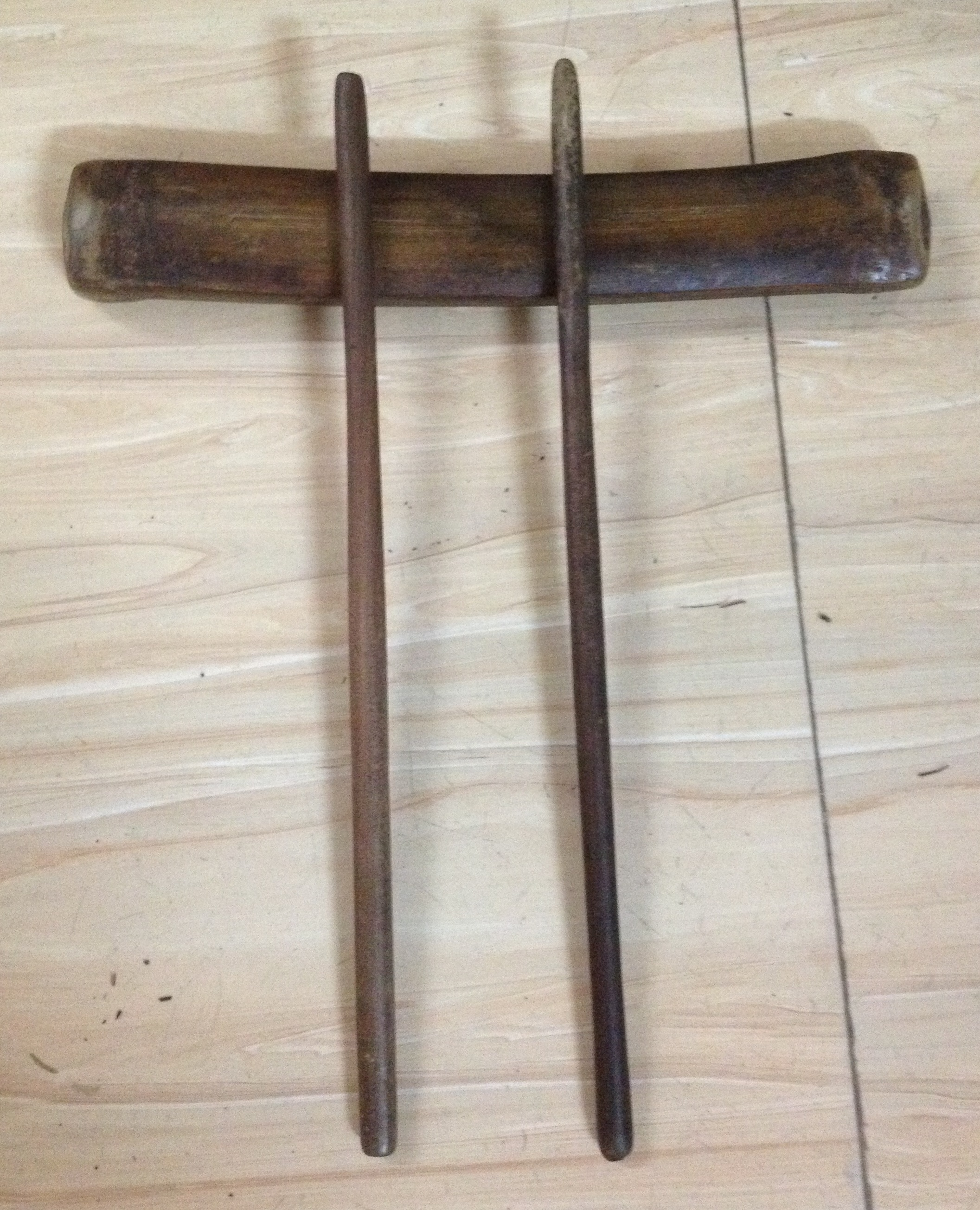 Phách is a Vietnamese musical instrument combined small wooden sticks beaten on a small bamboo platform to serve as percussion